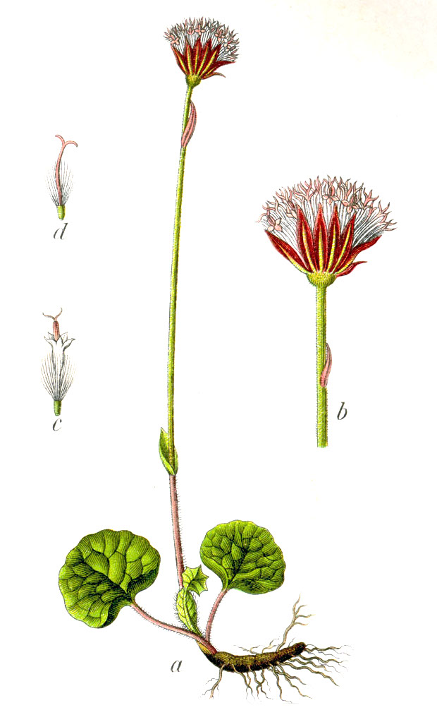 Homogyne alpina (L.) Cass. Original Caption Grüner Alpenlattich, Homogyne alpina